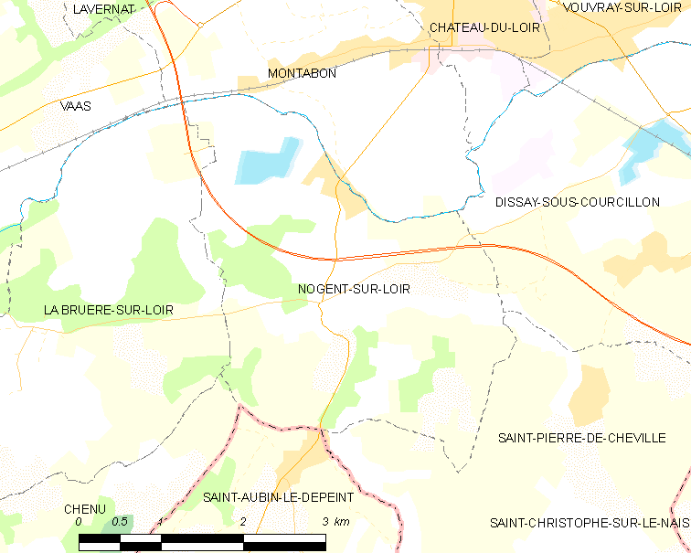 Map of French municipality